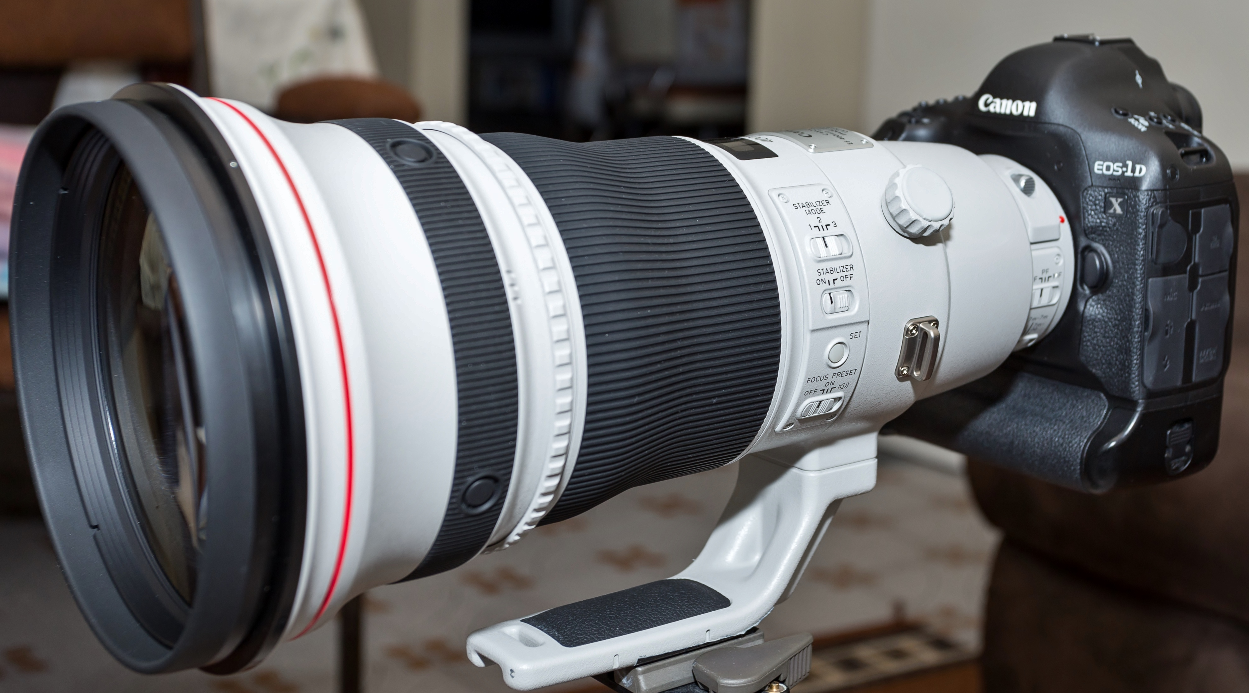 The Canon EF 400mm f/2.8L IS II USM lens, Mounted on a Canon EOS 1DX